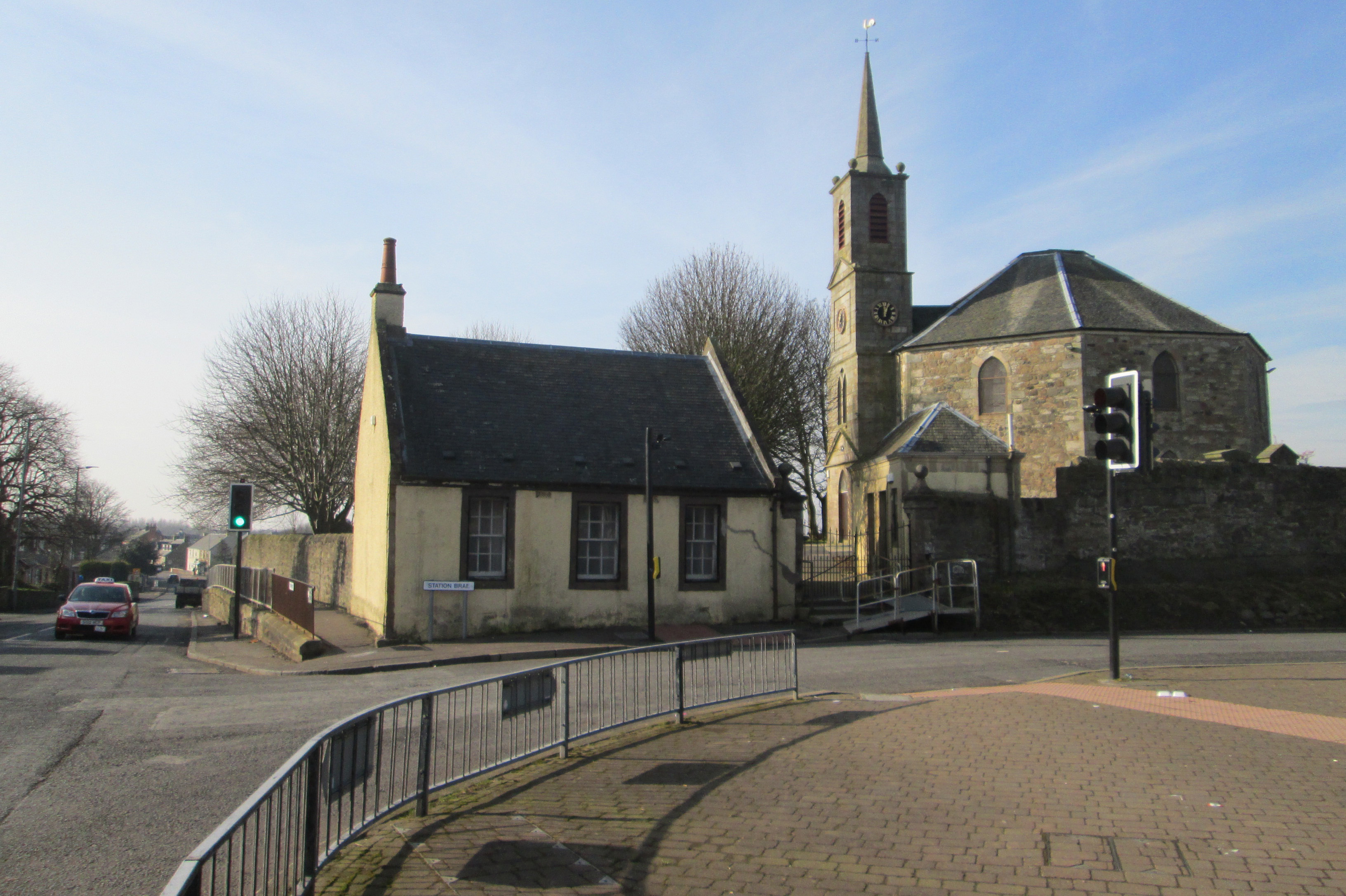 Dreghorn crossroads, looking down Townfoot (B7081) with the old Post office and Dreghorn and Springside Parish Church at the corner of Station Brae